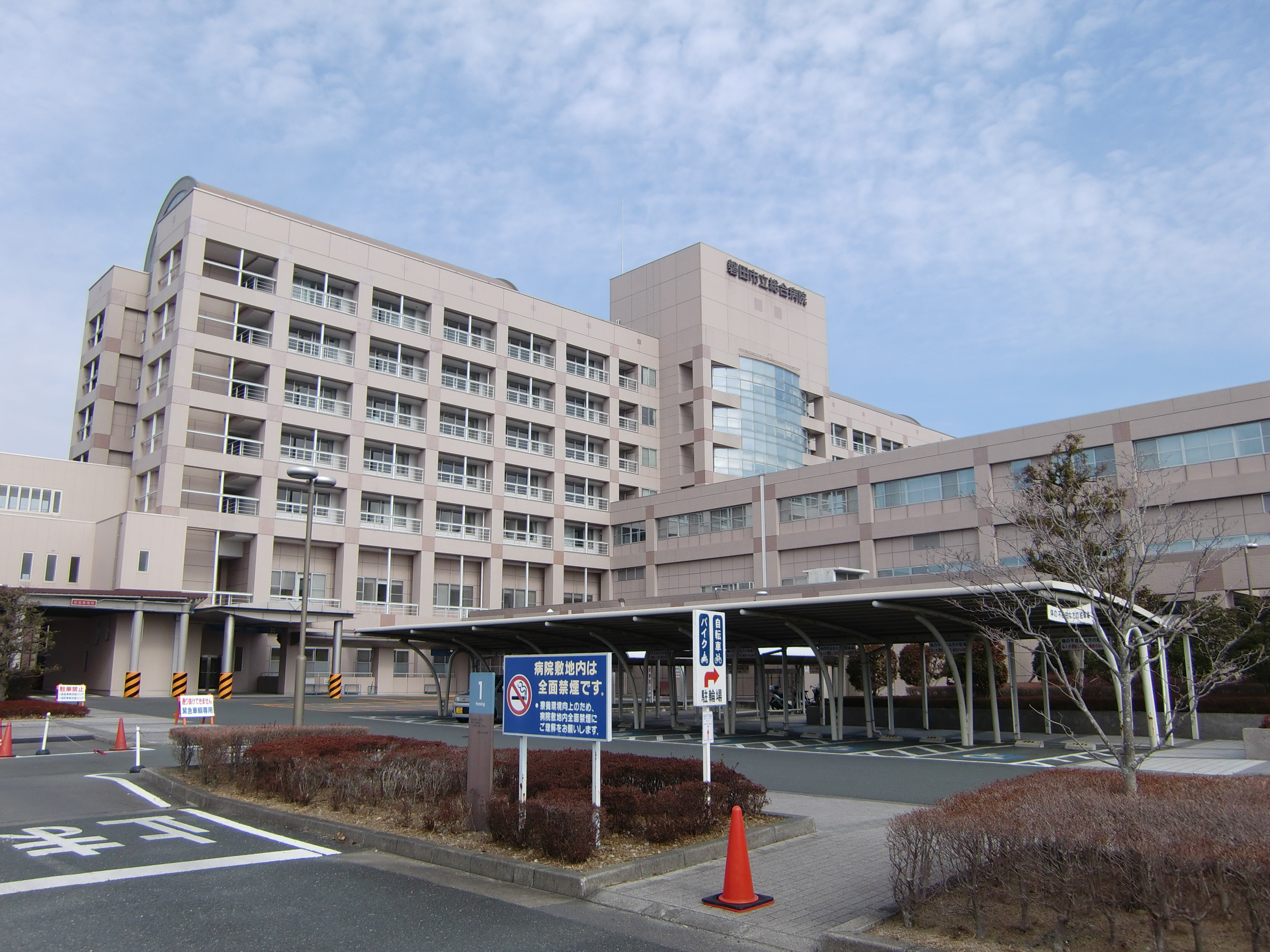 Iwata City Hospital